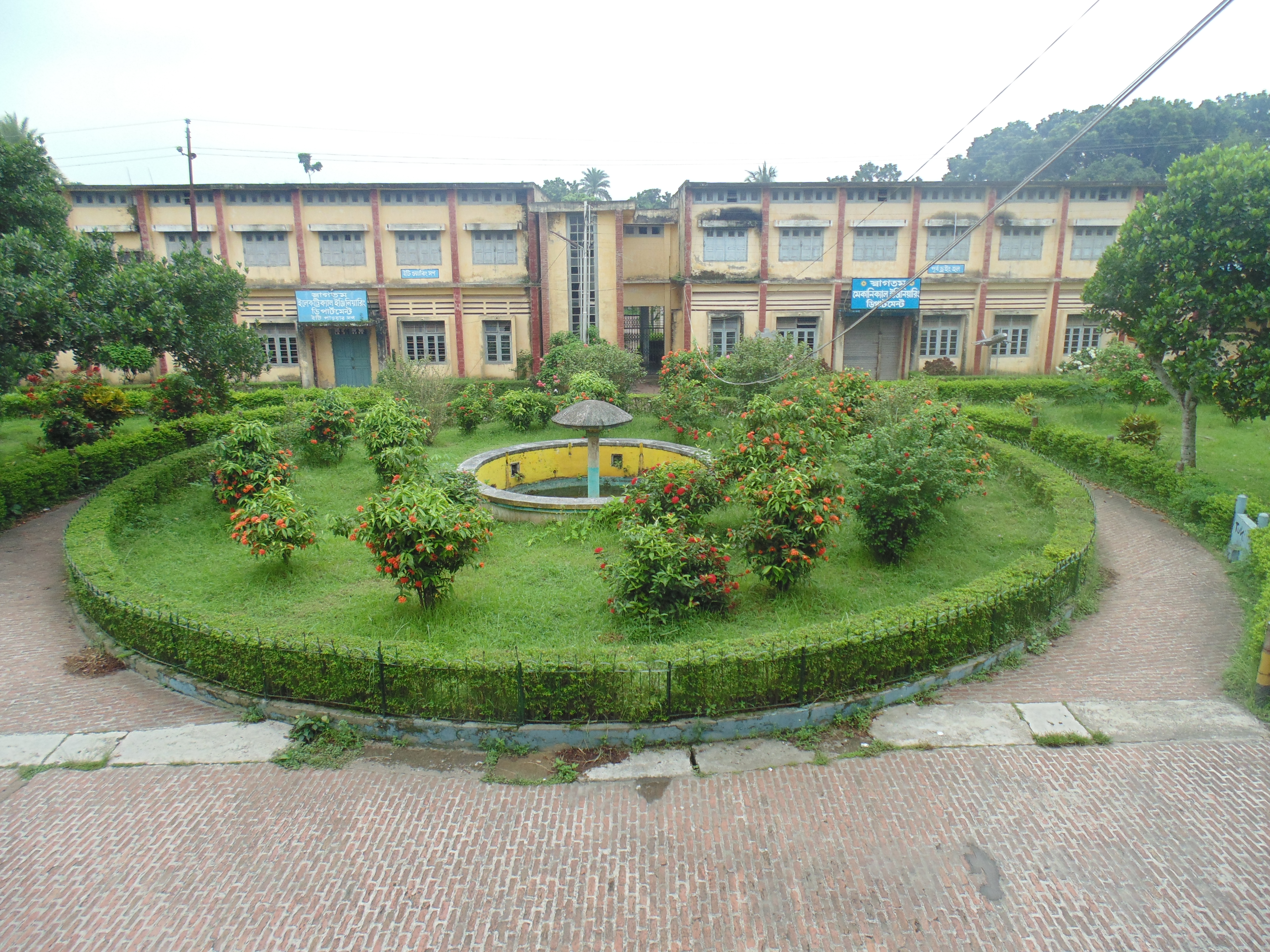 Jessore Polytechic Istitute awesome place